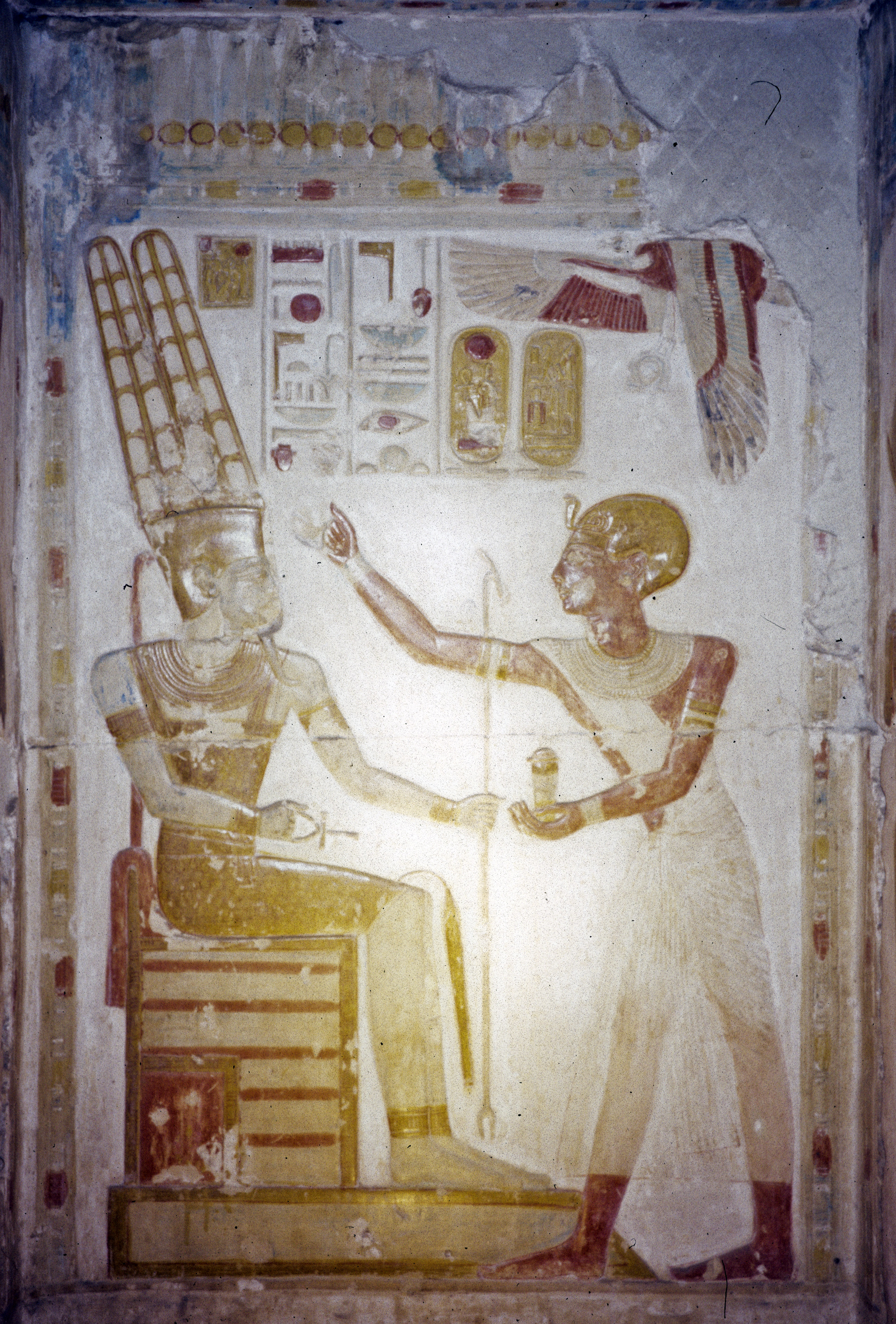 Temple of Seti I, Egypt